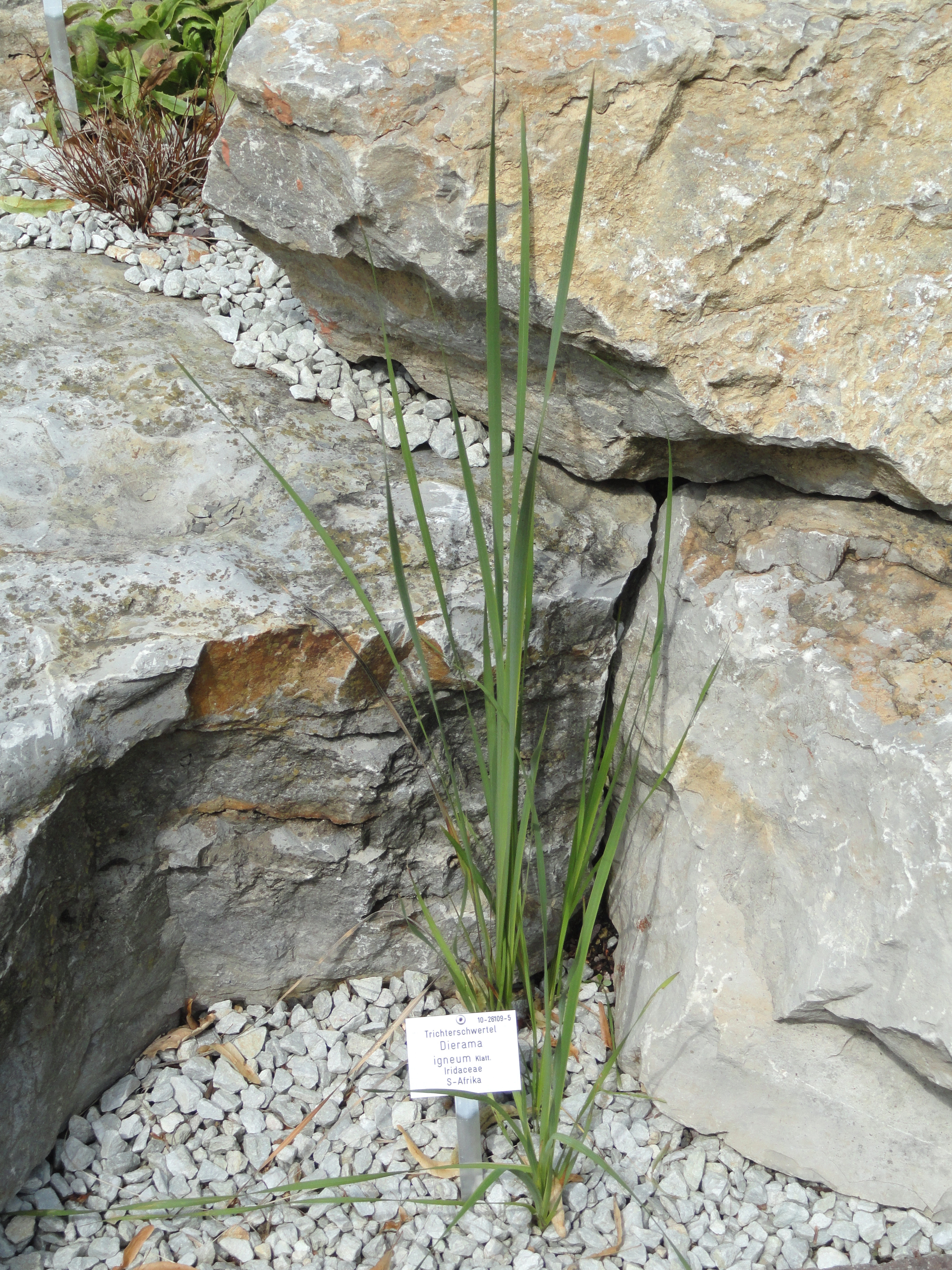 Botanical specimen in the Palmengarten, Frankfurt am Main, Germany.